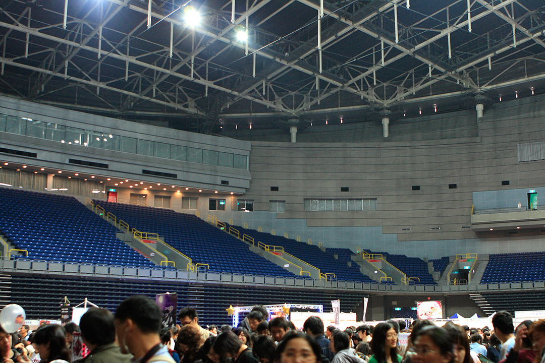 Kaohsiung Arena